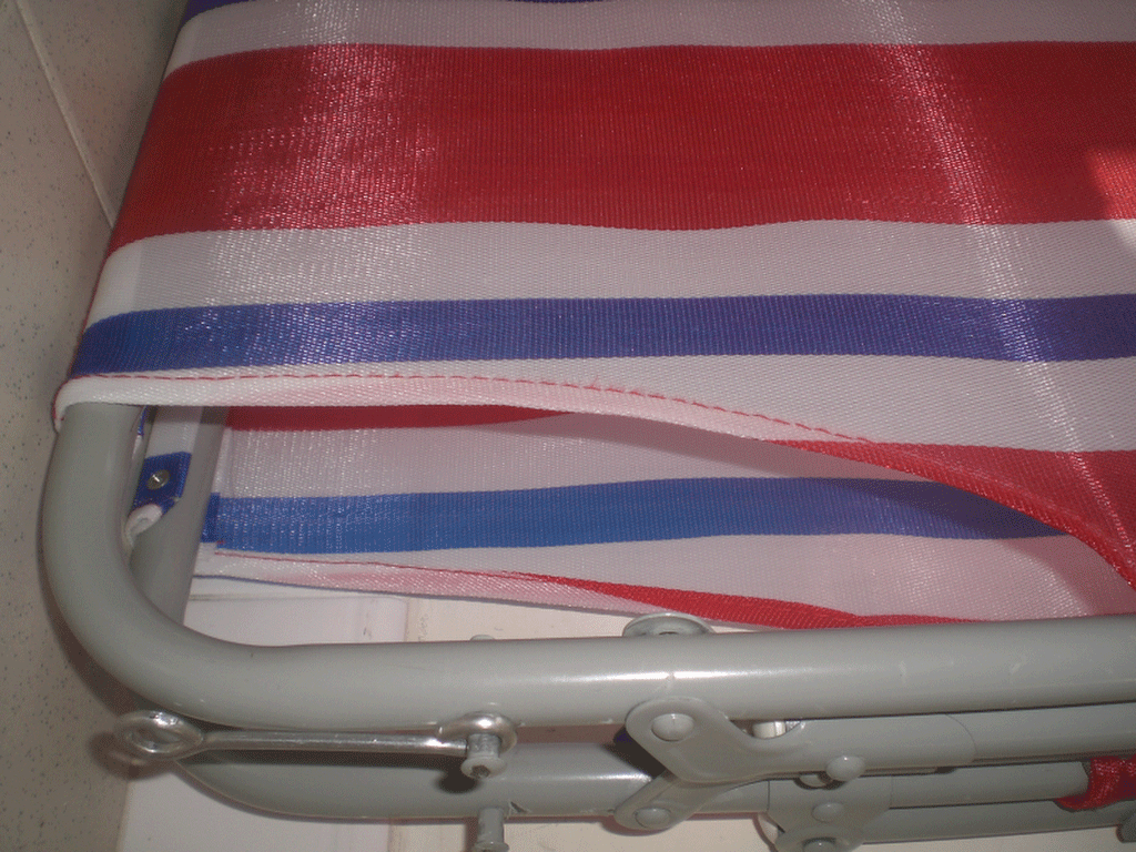 尼龍床